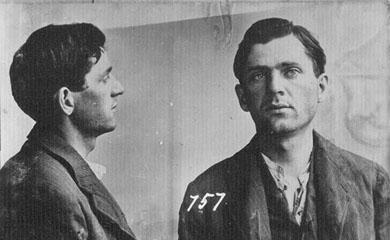 Booking Photo of Leon Czolgosz. Public Domain, obtained from [1]